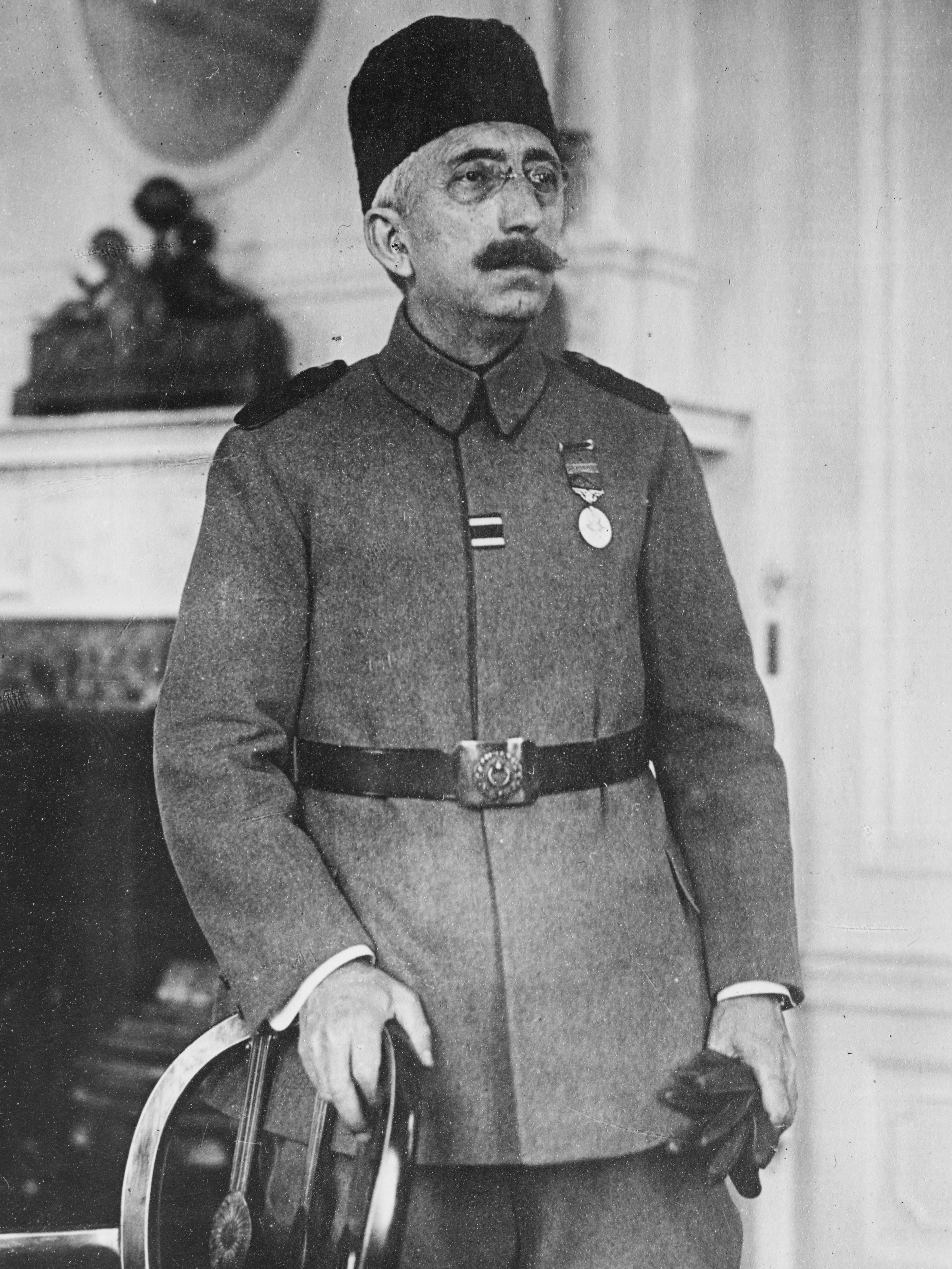 36th and last Sultan of the Ottoman Empire, also 115 th Caliph of Islam; Mehmed VI.